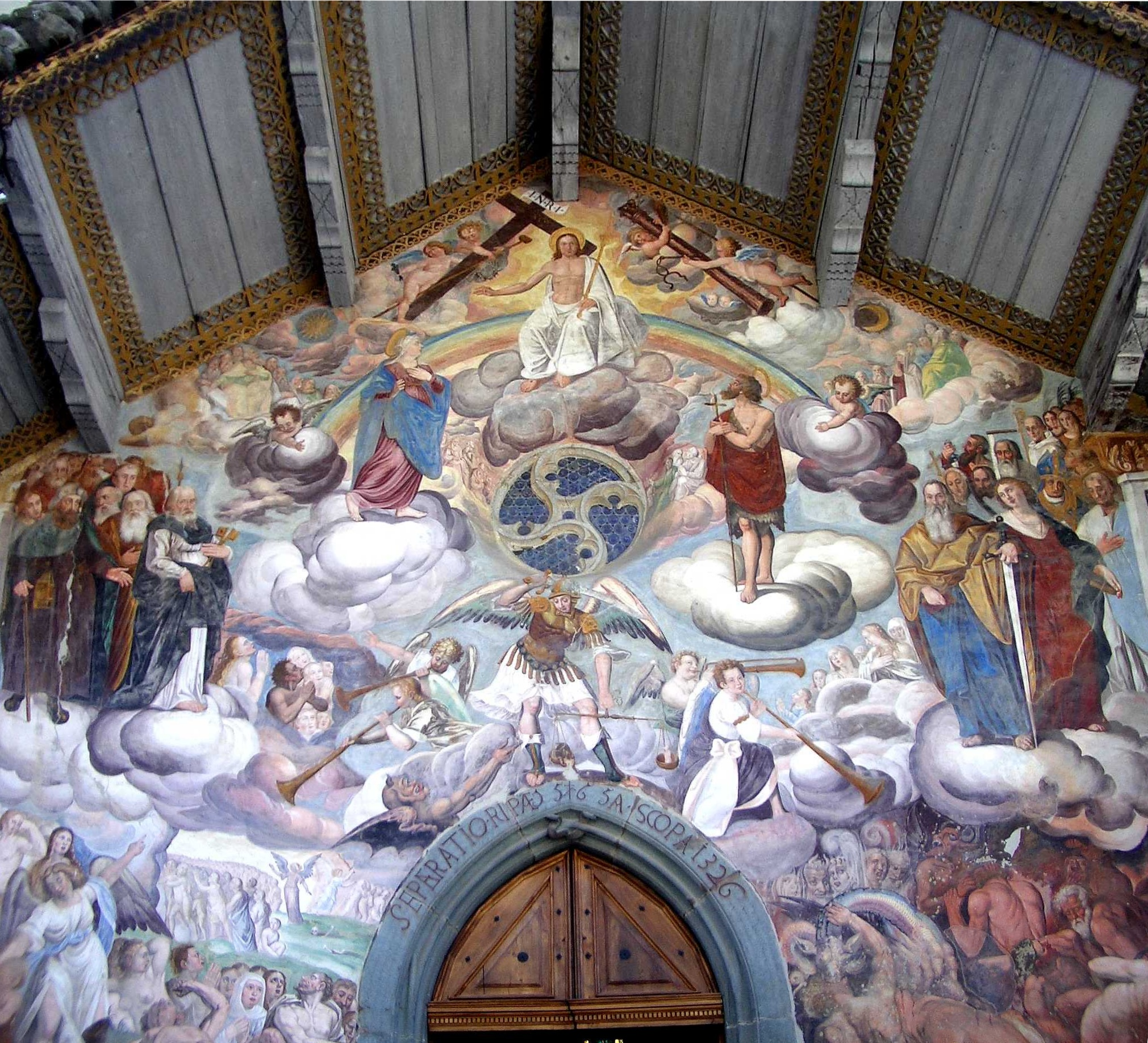 Melchiorre d'Enrico, Last Judgment, fresco, 1596-97, facade of the San Michele parish church, Riva Valdobbia, Vercelli, Italy